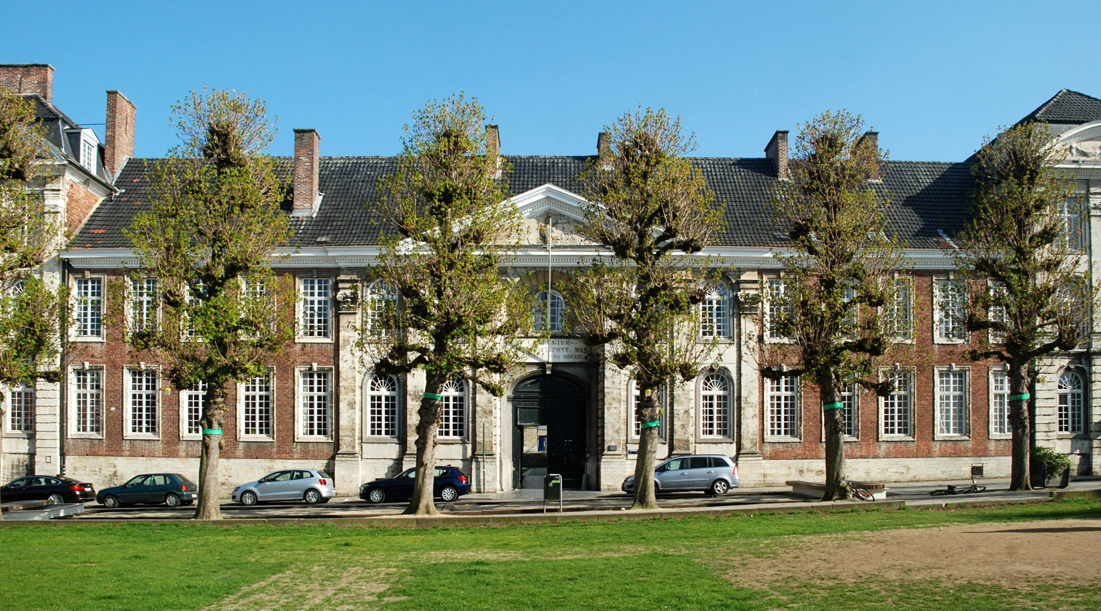 Belgium - Leuven - Pope Adrian VI college